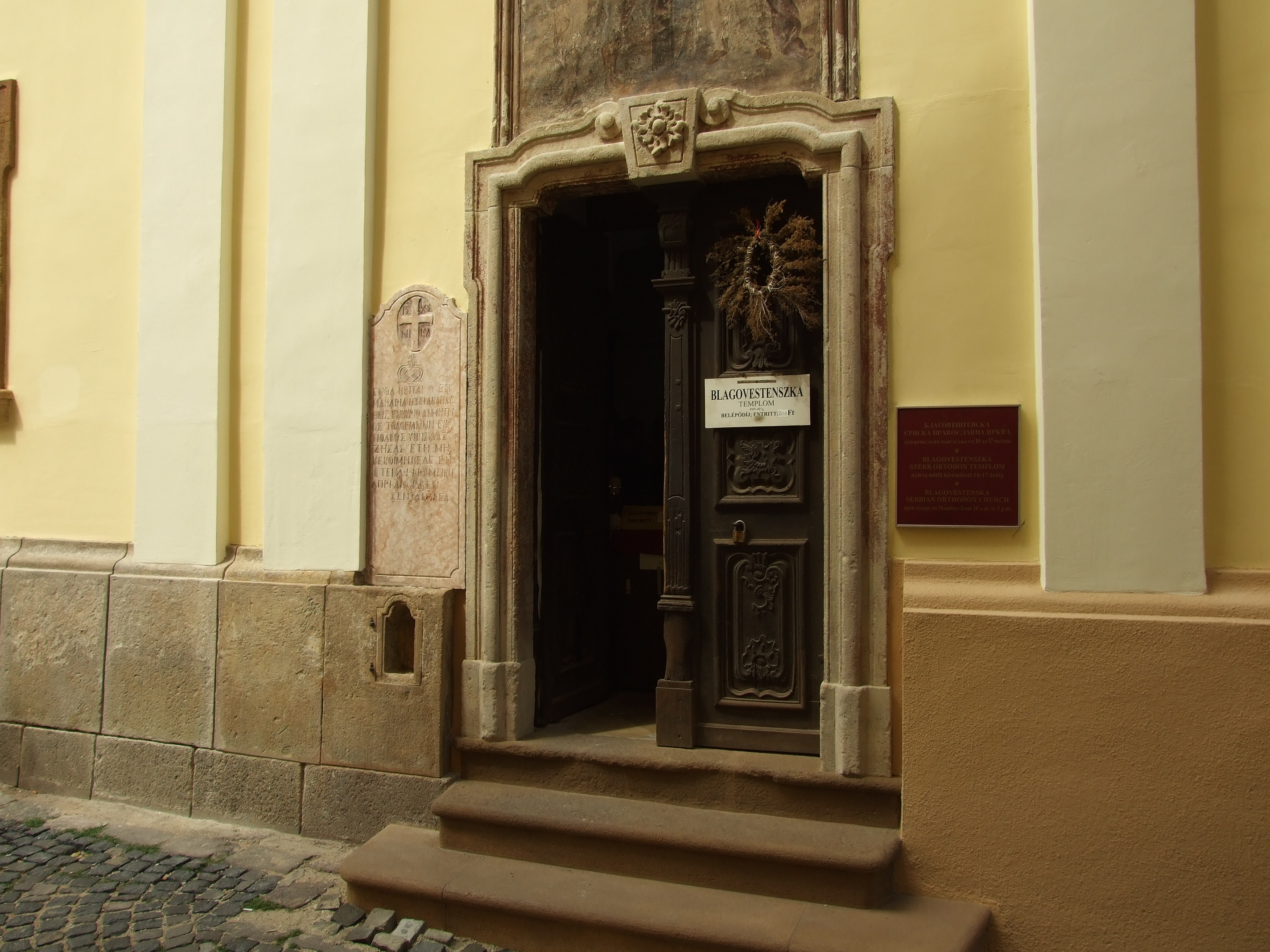 City of Szentendre, Pest comitat, Hungaryhelp